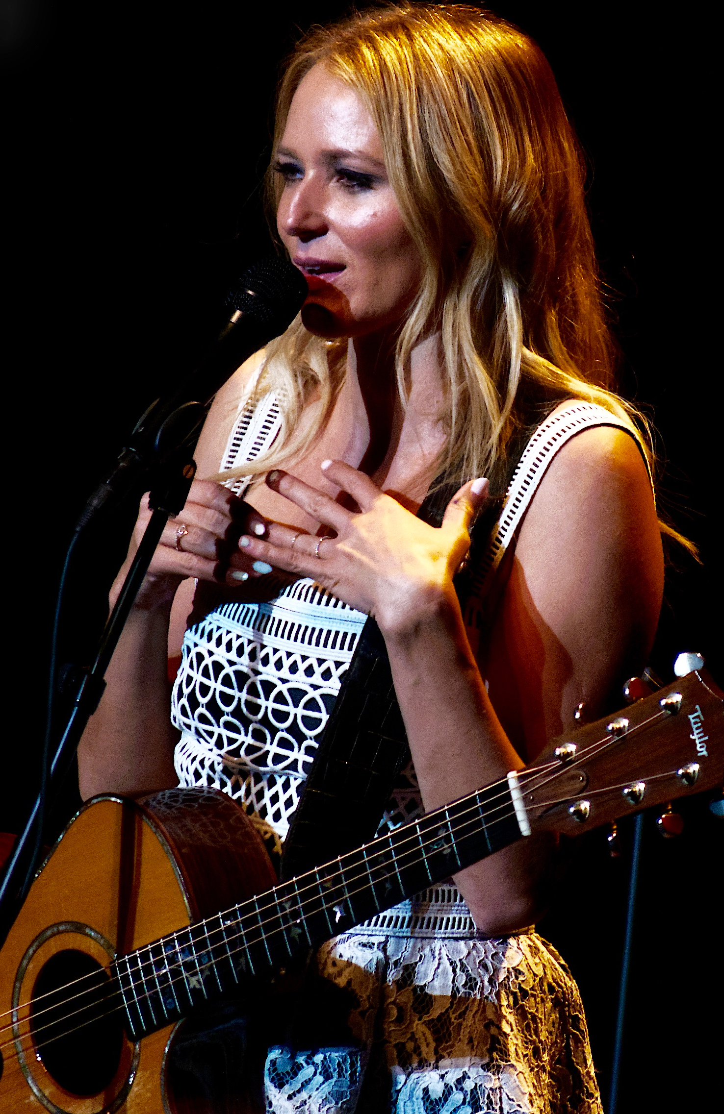 Jewel Kilcher performing live at the Valley Performing Arts Center at Cal State Northridge (CSUN), in Los Angeles California on Wednesday May 18th, 2016.